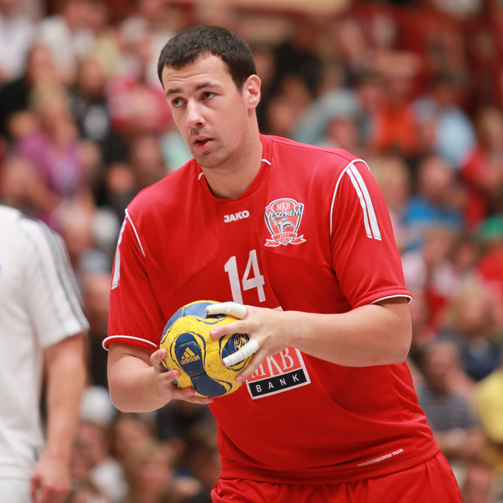 Marko Vujin, handball player from Serbia, playing for MKB Veszprém, on August 22nd, 2009 in Ehingen (Germany), during the Schlecker Cup 2009.